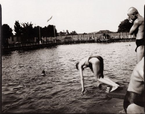 Freibad Kochsee - Heinrich Zille